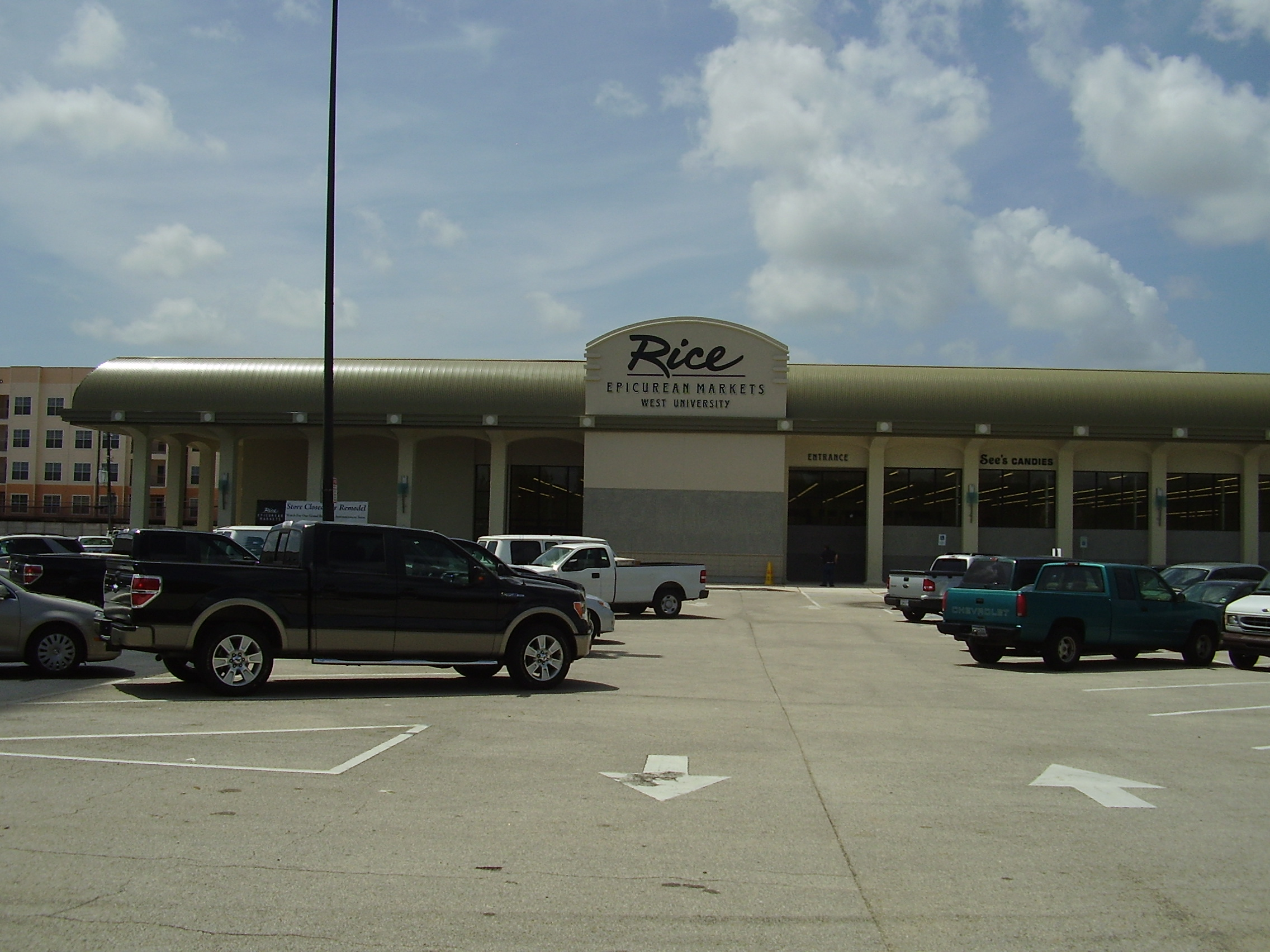 Rice Epicurean Markets West University/Holcombe